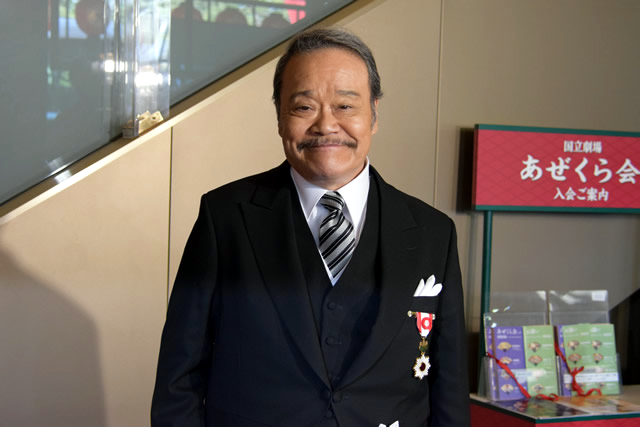 Toshiyuki Nishida, President of Japan Actors Union, attended a presentation ceremony of the Order of the Rising Sun, Gold Rays with Rosette at the National Theatre of Japan in Chiyoda Ward, Tōkyō Metropolis on May 11, 2018.